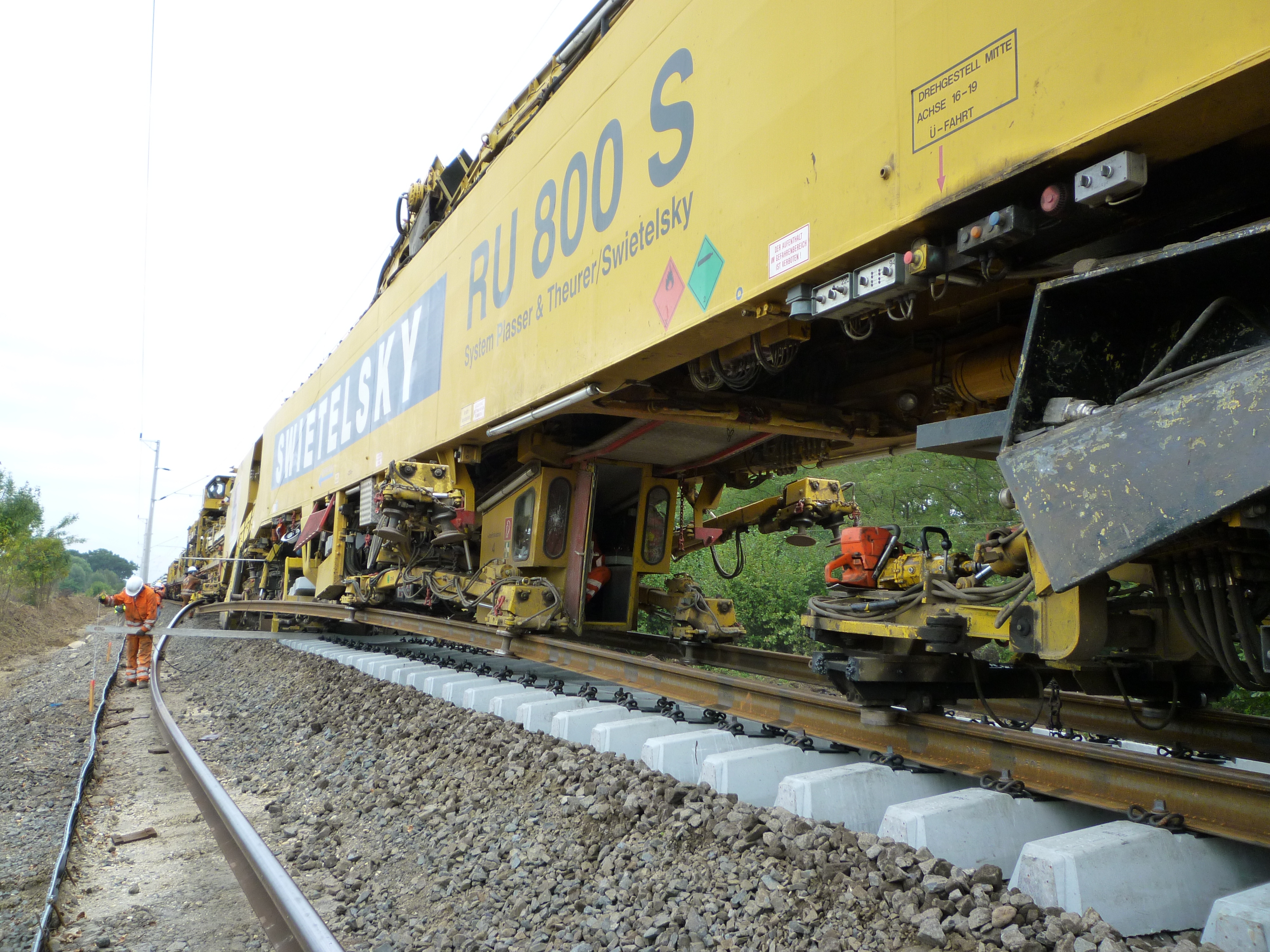 Plasser & Theurer type RU 800 S renewal machine on the Szombathely–Szentgotthárd railway line, Hungary.